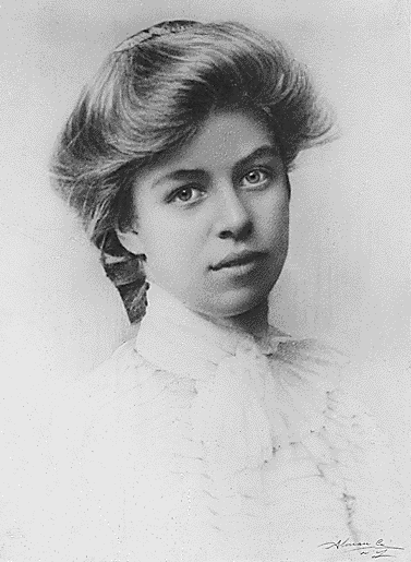 Eleanor Roosevelt school portrait, 1898.